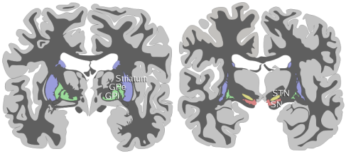 Schematic of coronal sections of human brain showing the basal ganglia GPi GPE STN SN